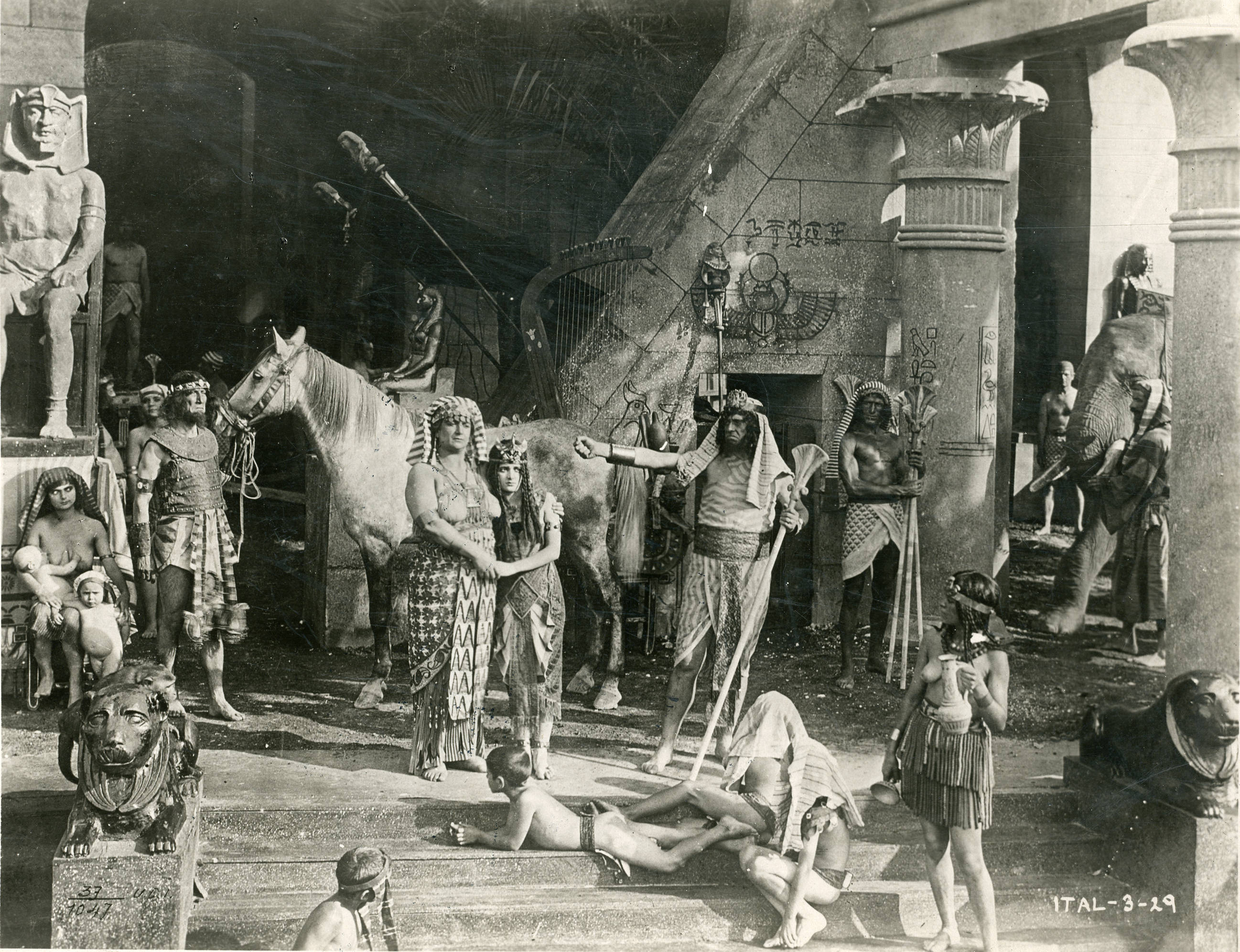 A scene from the Italian film Theodora (1921) (Italian: Teodora). Subjects: motion pictures